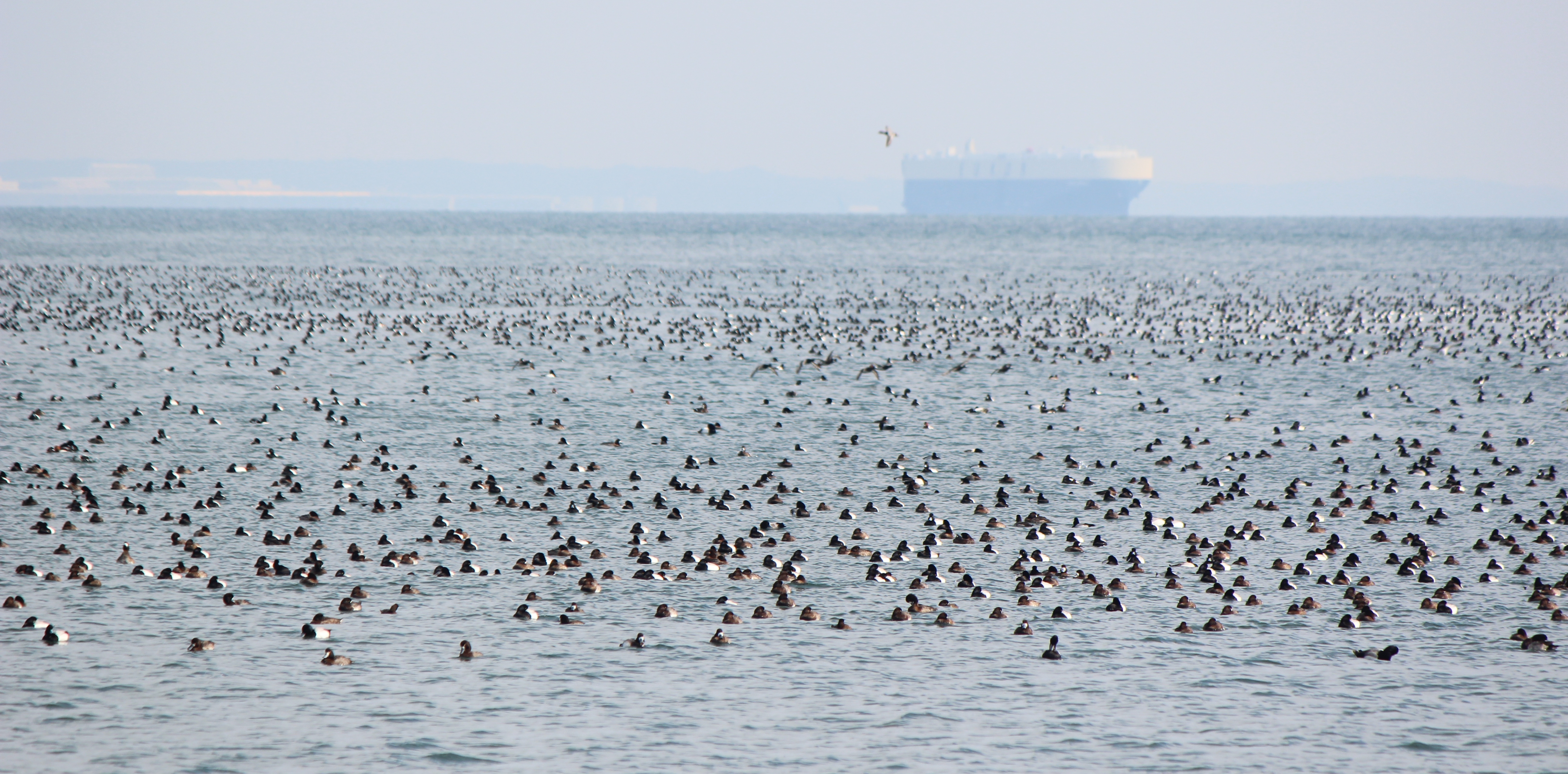 Flocks of Aythya marila mariloides in Ise Bay, Mie pref., Japan.